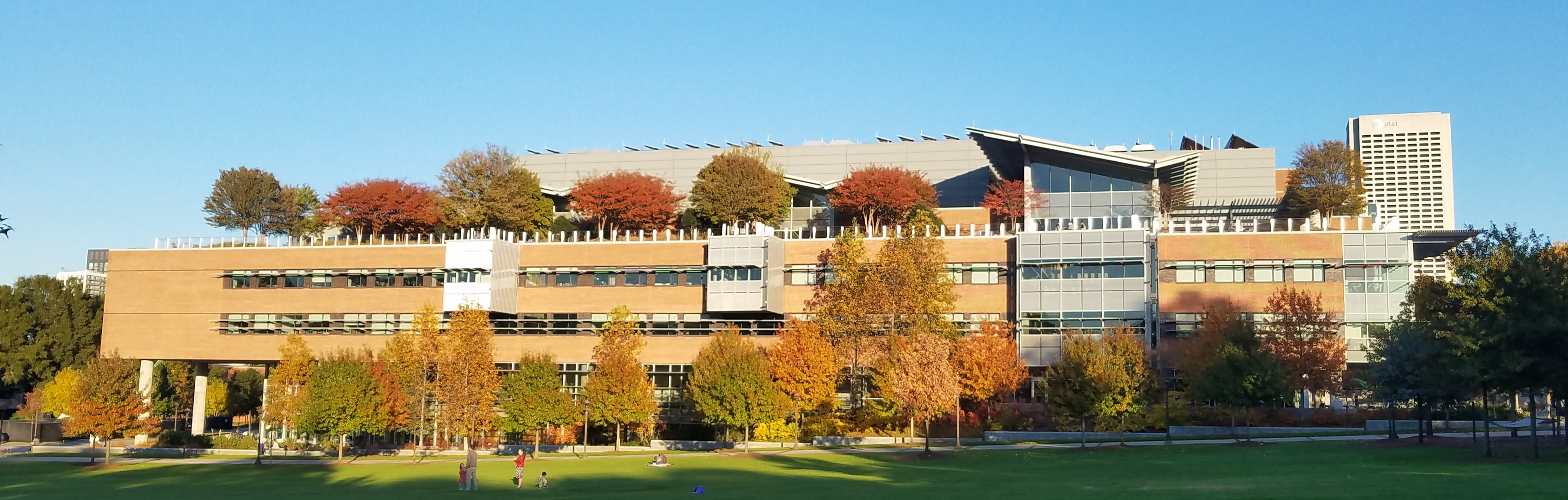 G. Wayne Clough Undergraduate Learning Commons. Picture taken facing east.